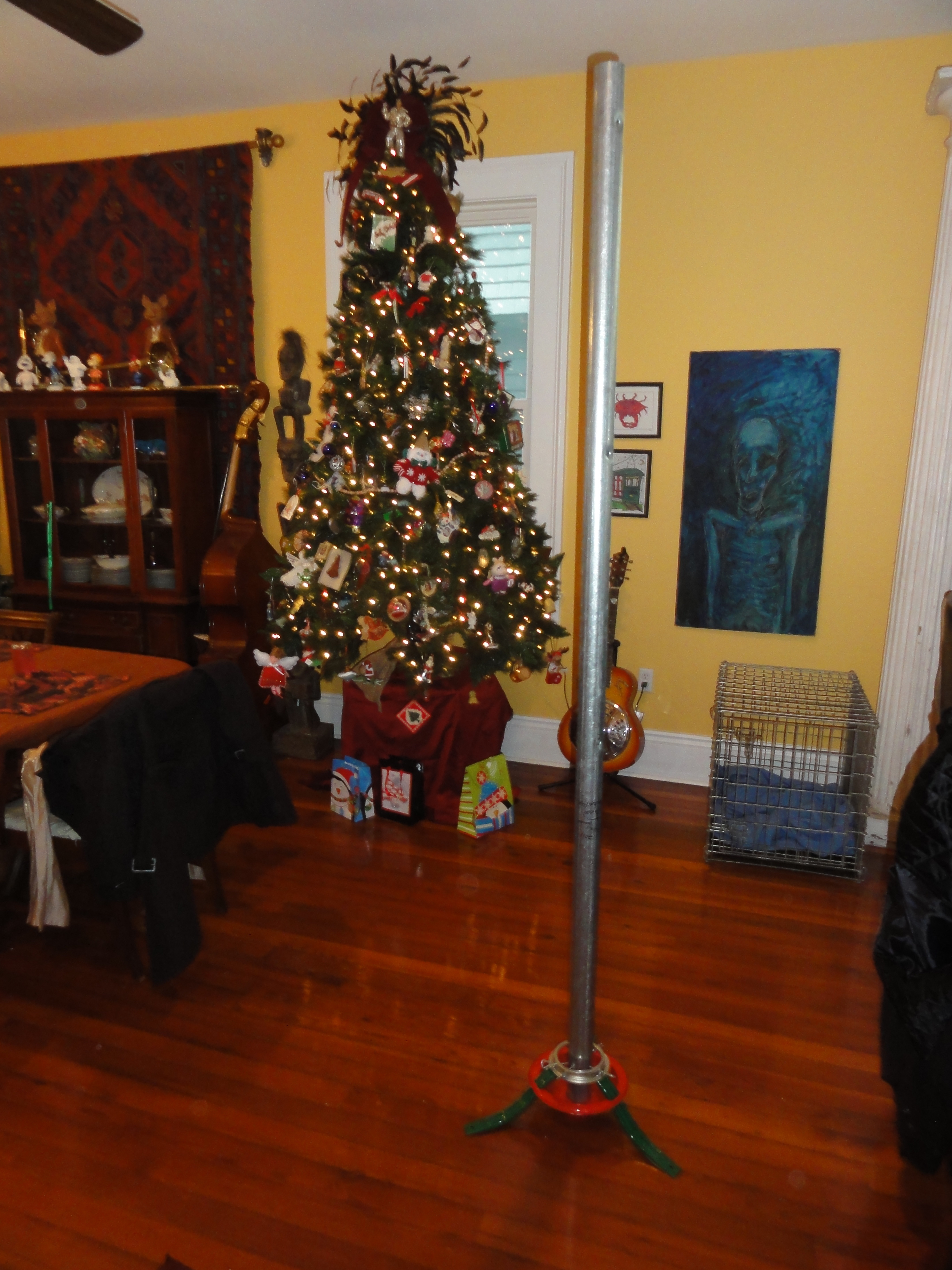 At Michael's house. Room decorated with Xmas tree and "Festivus Pole", Uptown New Orleans